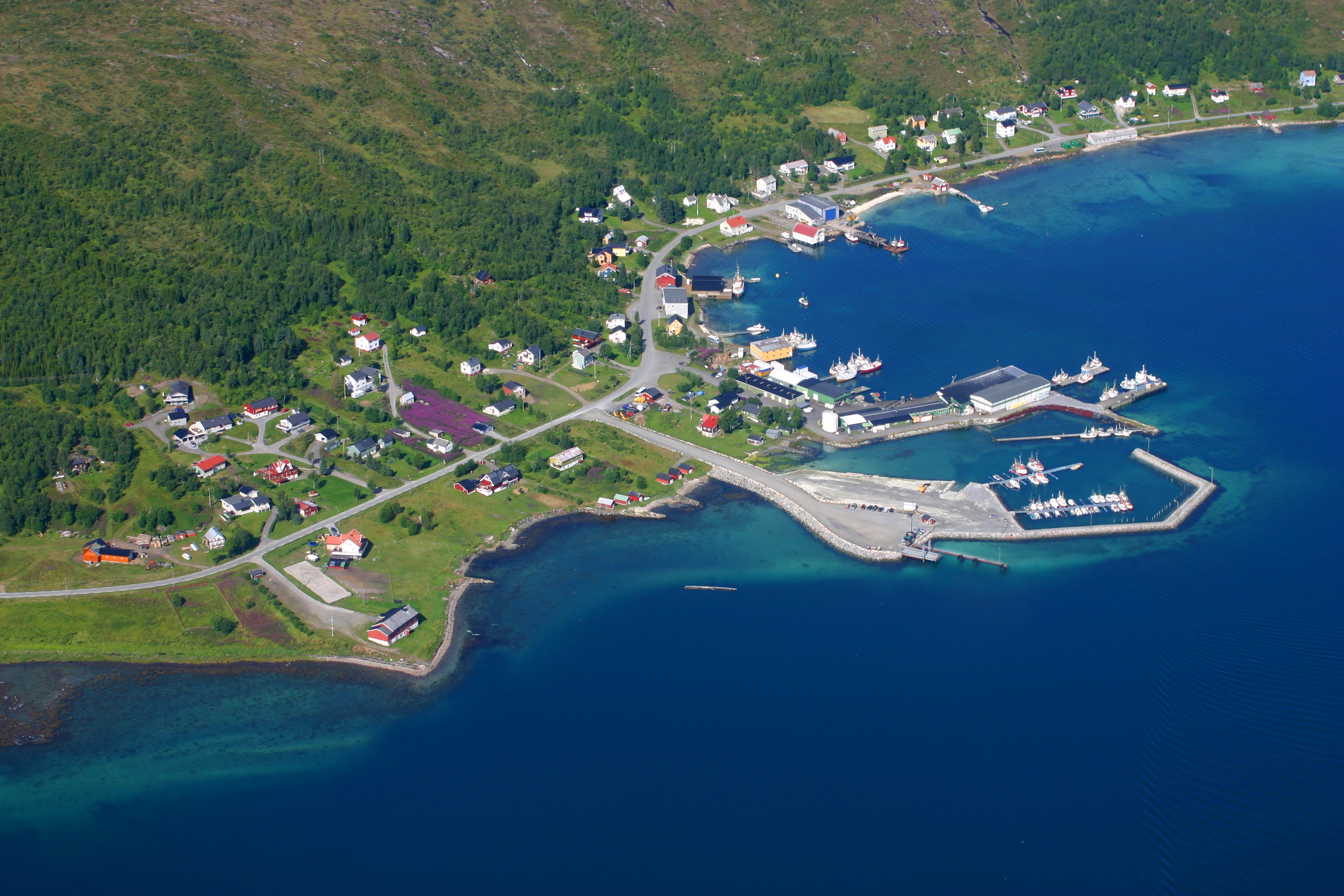 The Botnhamn centre in northern Norway. Botnhamn